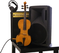 Electronic Violin Electric Viola Fiddle handmade by Violin maker CJK NEW Pickup new Instrument new Sound - the C-Violin - for Amplification, to amplify